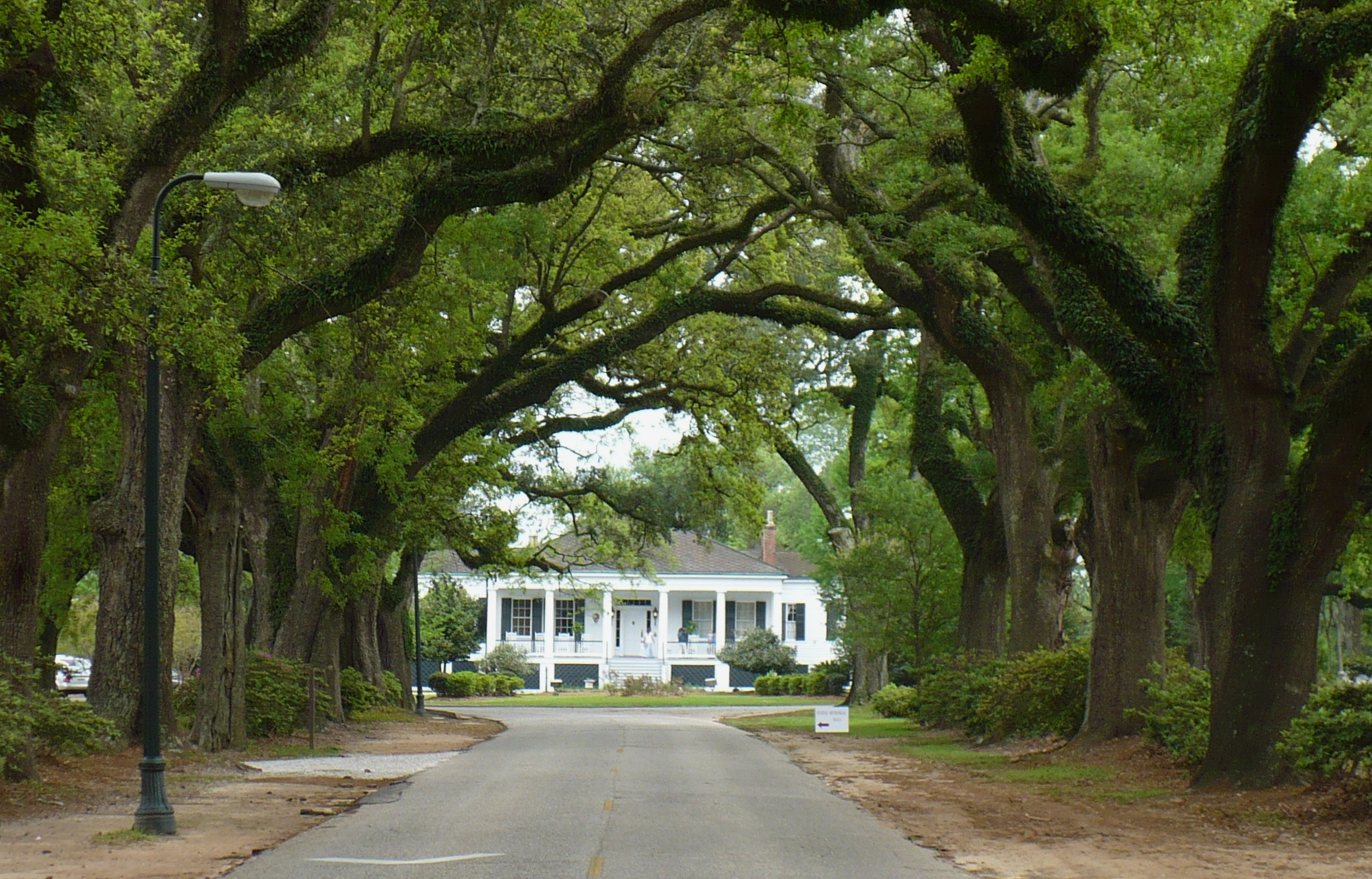 Stewartfield (c. 1850) at the end of its avenue (landscape allée) of Southern live oaks (Quercus virginiana). On the Spring Hill College Campus in Mobile, Alabama.